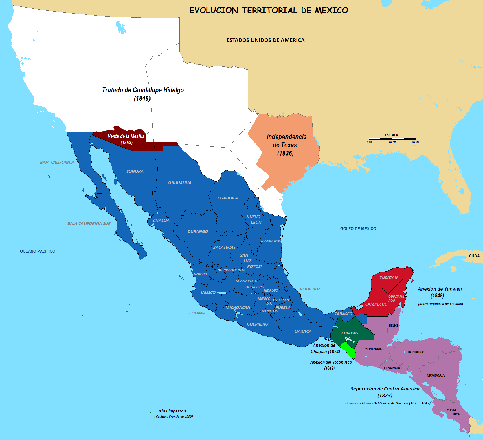 Territorial Evolution of Mexico 1821 - 2009